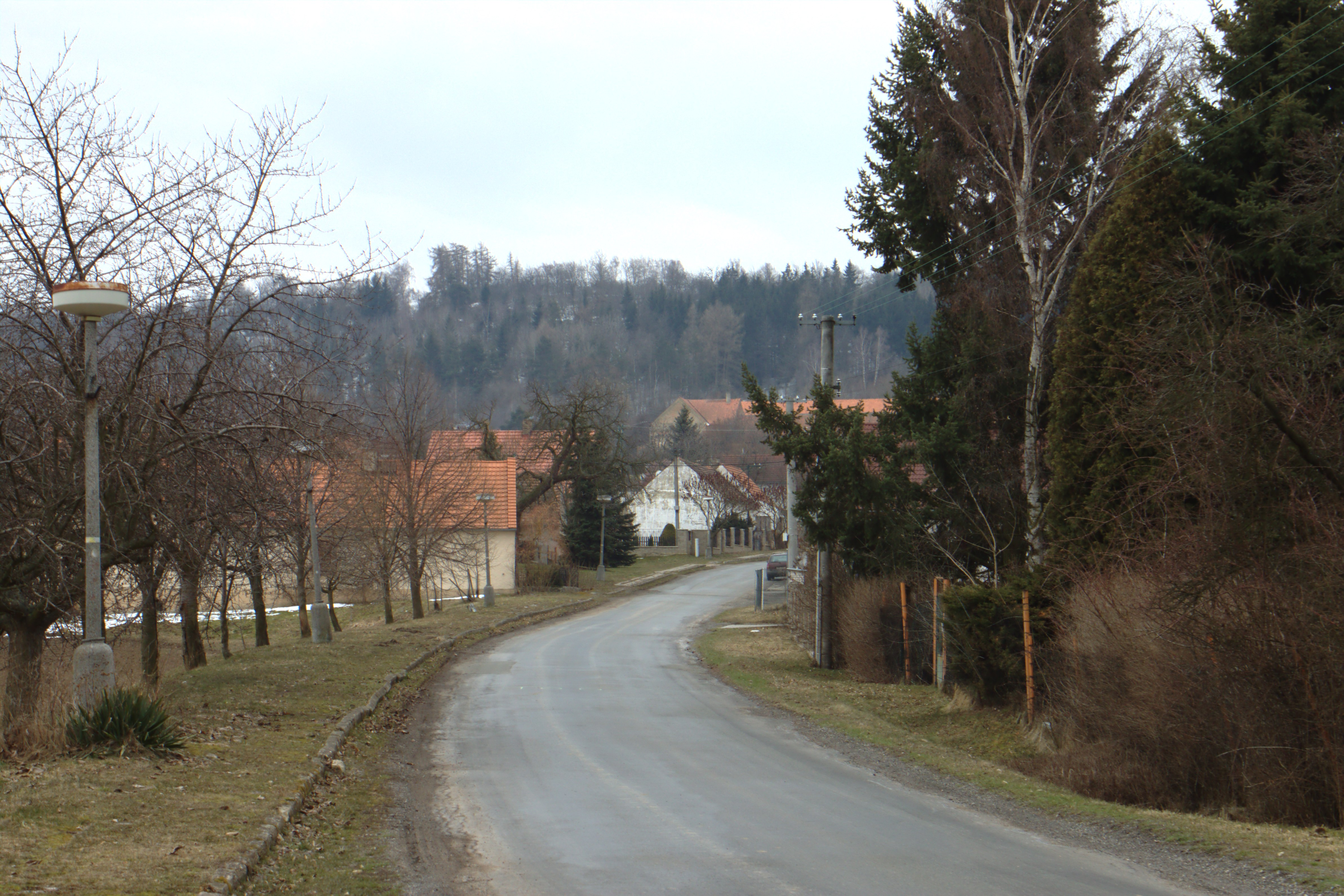 A road in the village of Václavy, Central Bohemian Region, CZ